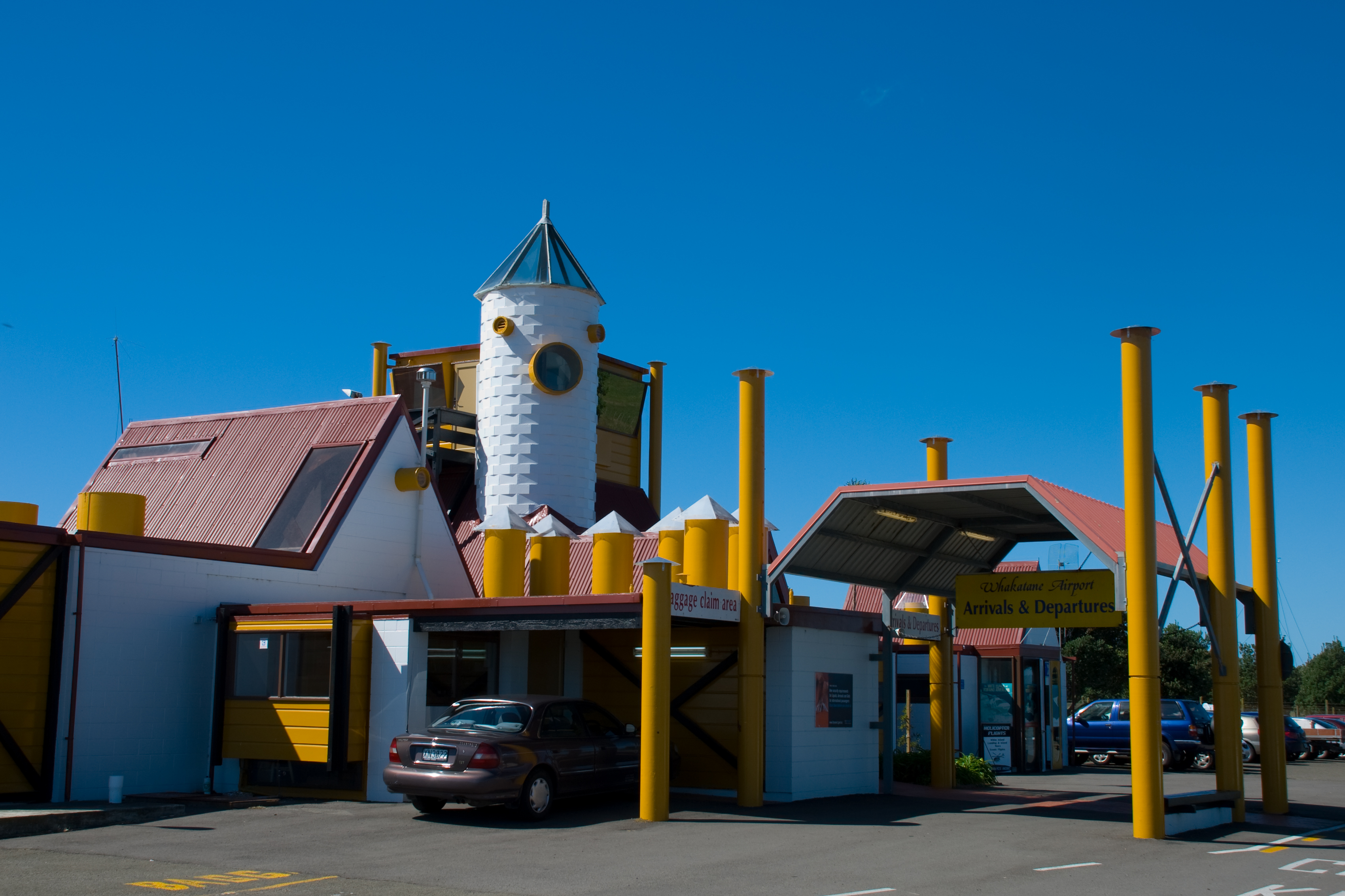 Whakatane airport terminal, Bay of Plenty, New Zealand